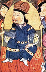 Depicted person: Altan Khan – leader of the Tümed Mongols